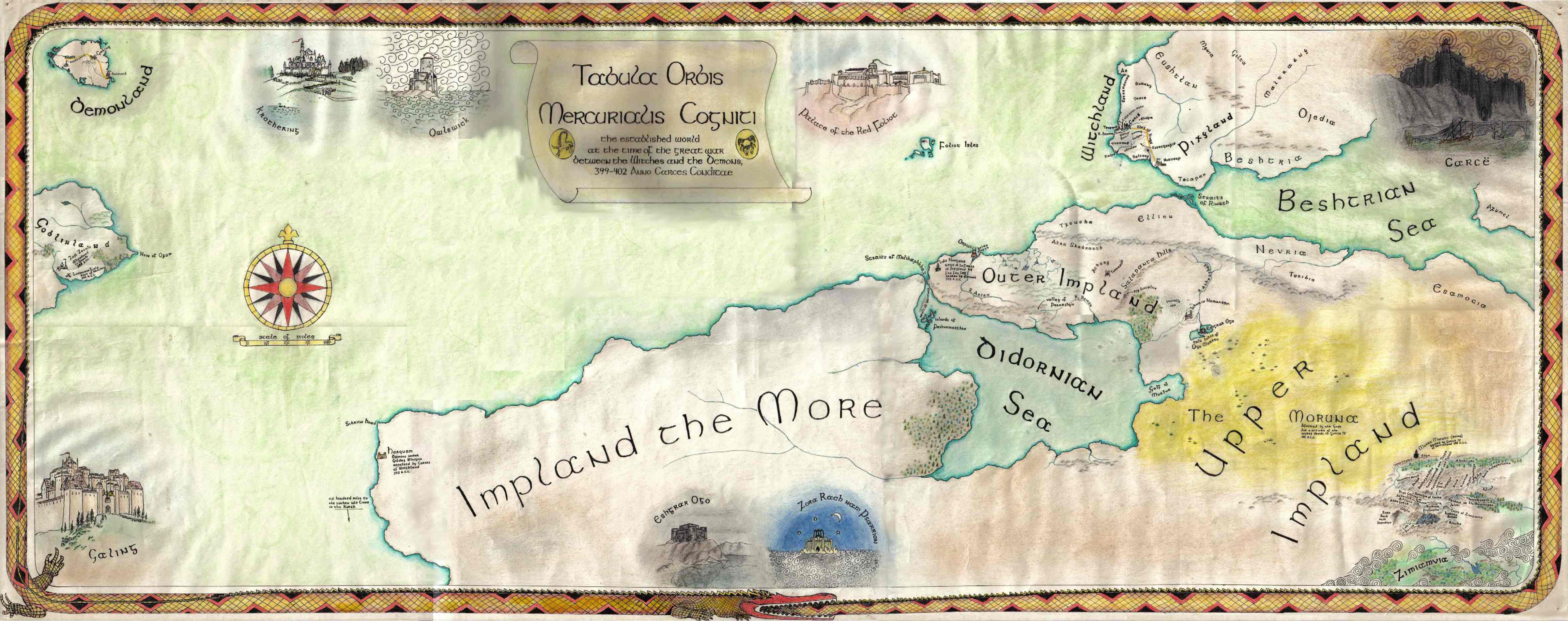 Map of "Mercury" as described in "The Worm Ouroboros" by E.R. Eddison